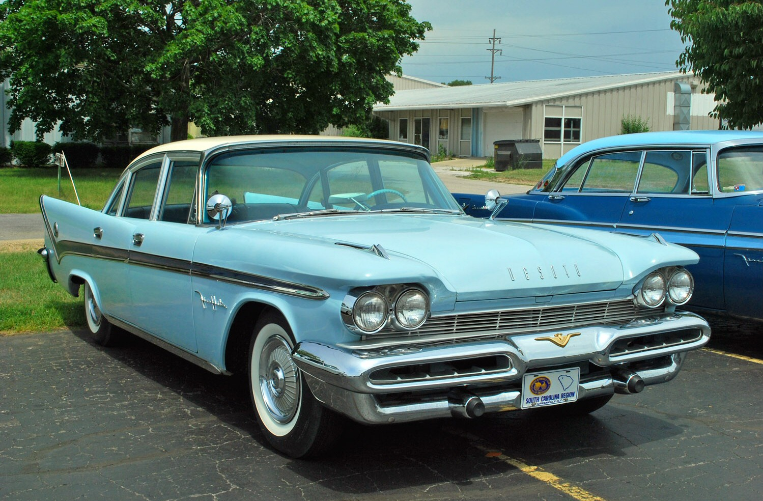 1959 DeSoto Fireflite at 2009 National DeSoto Club meet in St. Joseph, Michigan, July 22-26, 2009. This photo was taken in the Howard Johnson Inn parking lot, host hotel for the meet.